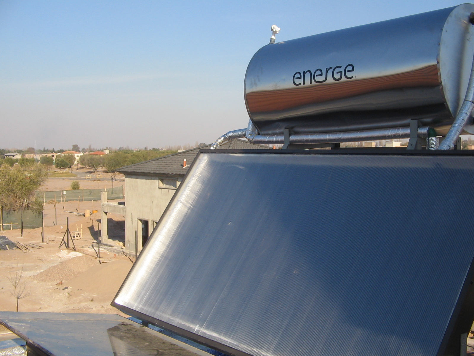 solar thermal thermosyphon water heater photographed on the roof of a house